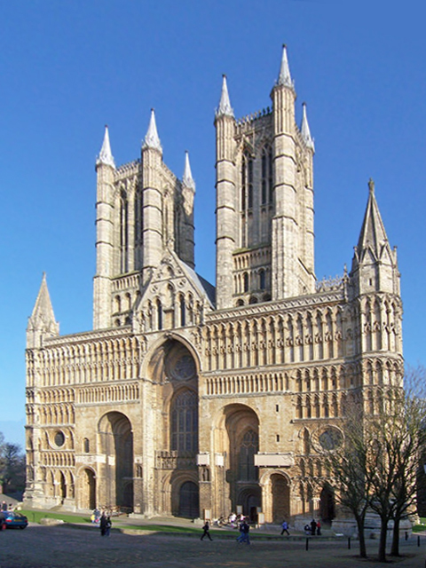 Lincoln Cathedral - West Front Lincoln cathedral is dedicated to the Blessed Virgin Mary.